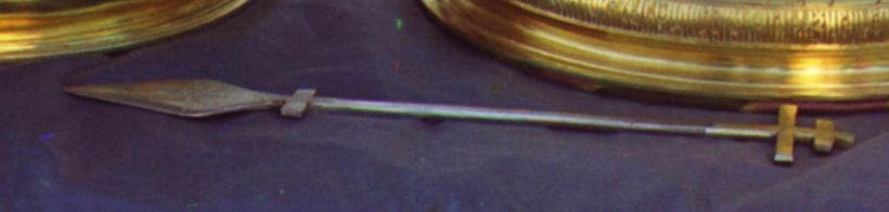 Liturgical spear used at the Proskomedie in the Divine Liturgy